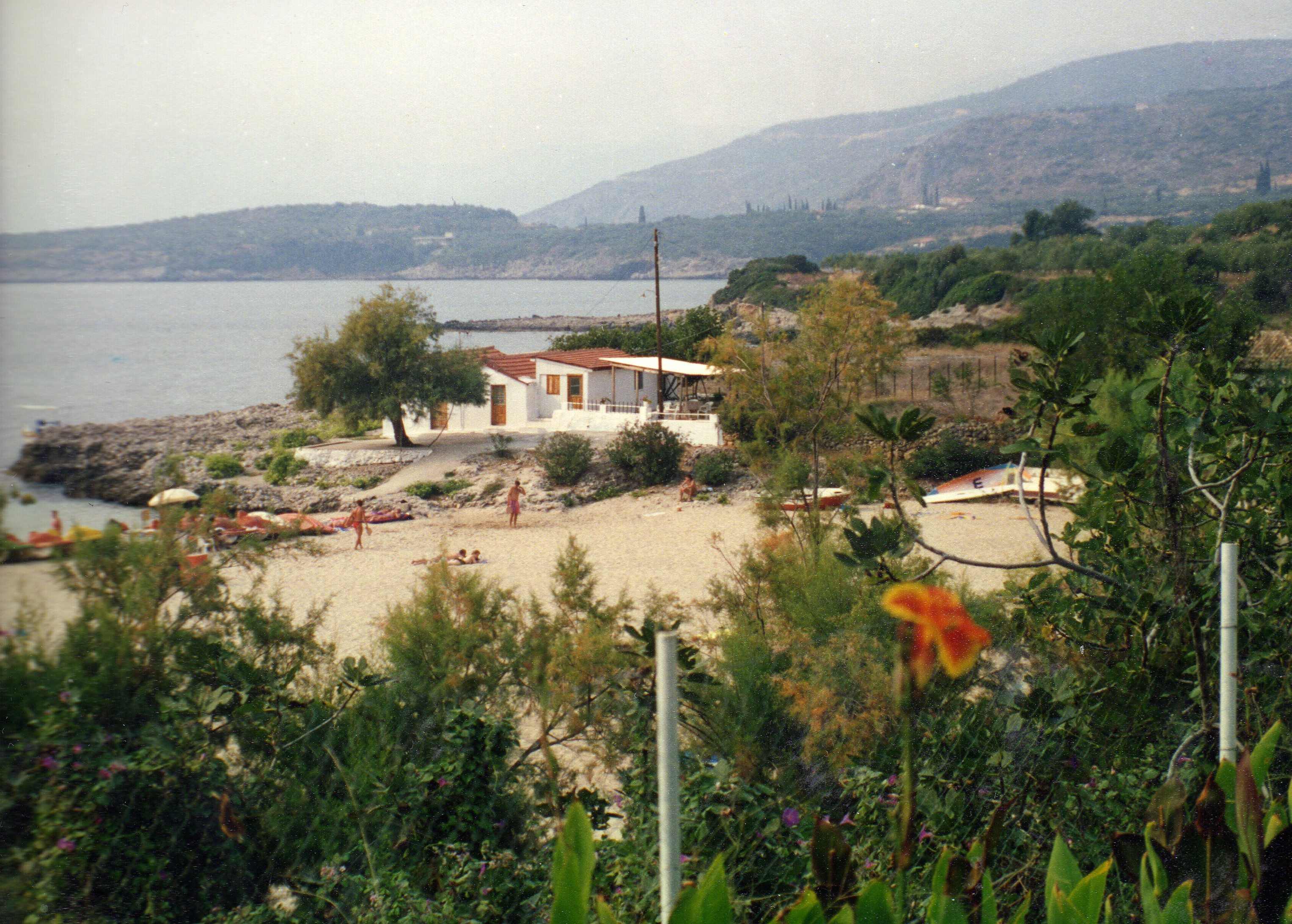 Stoupa village, Kalogria Beach